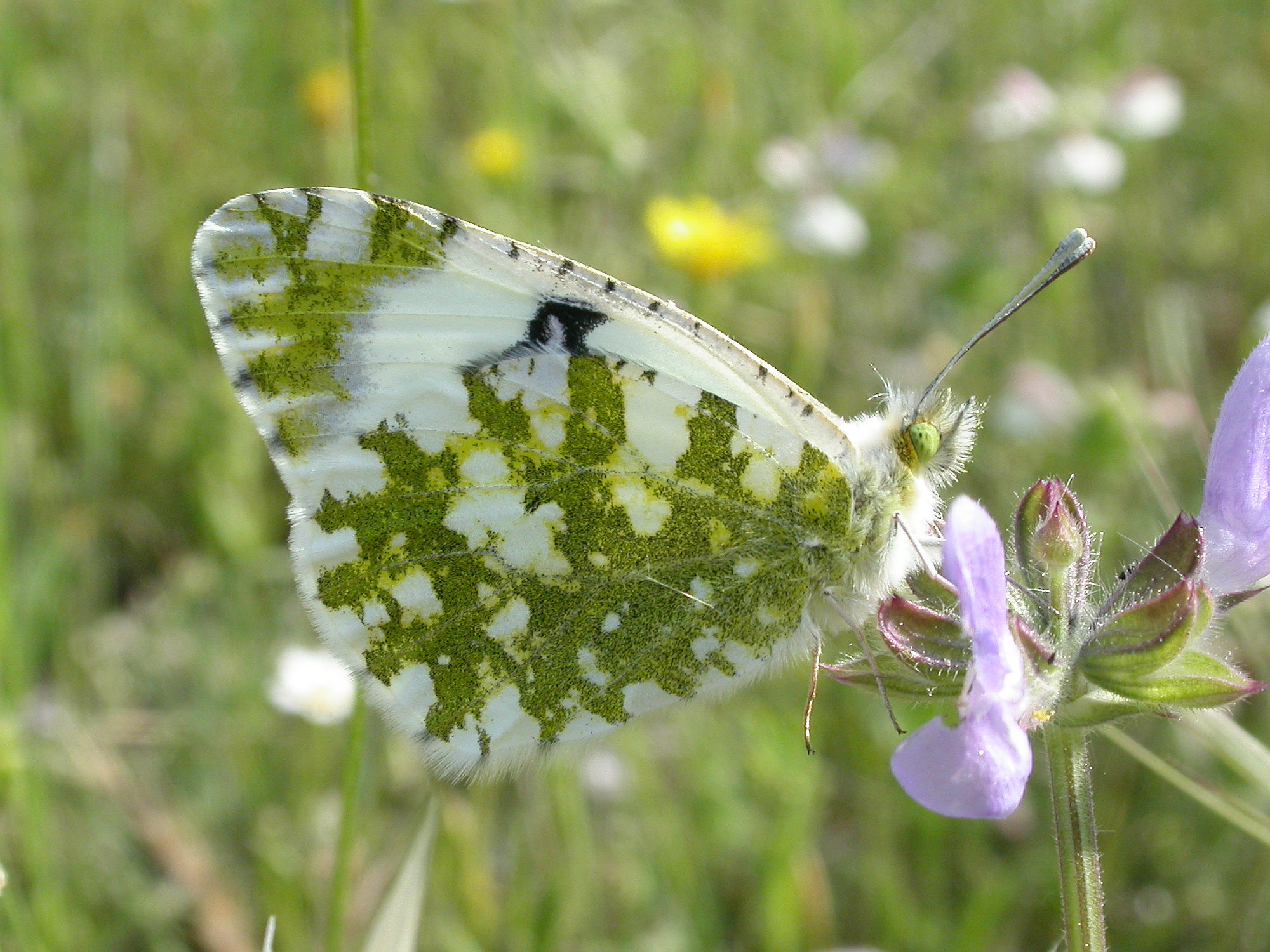 A Western Dappled White (Euchloe crameri, Pieridae). Rivas Vaciamadrid, Madrid, Spain.